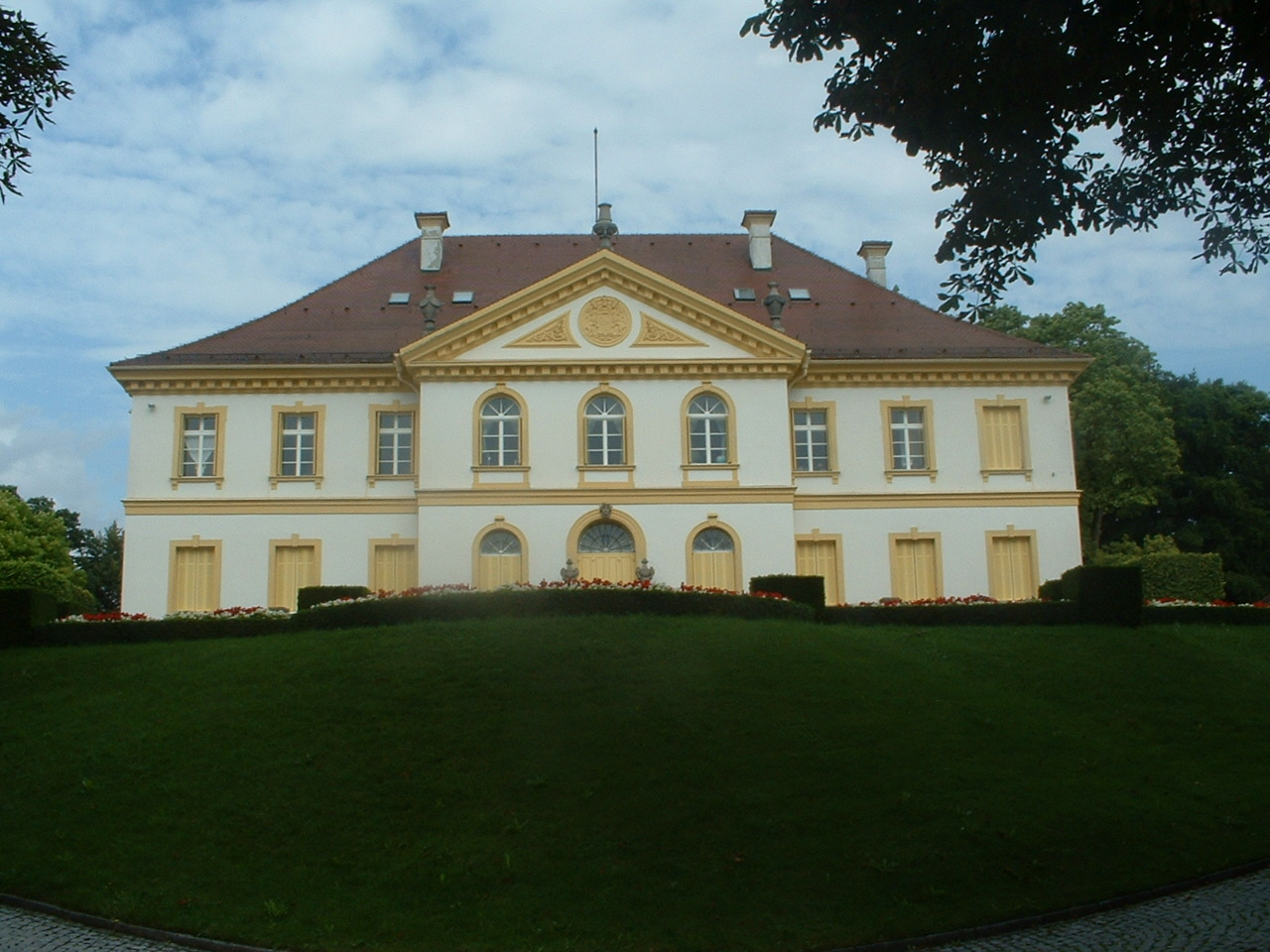 Castle Wain